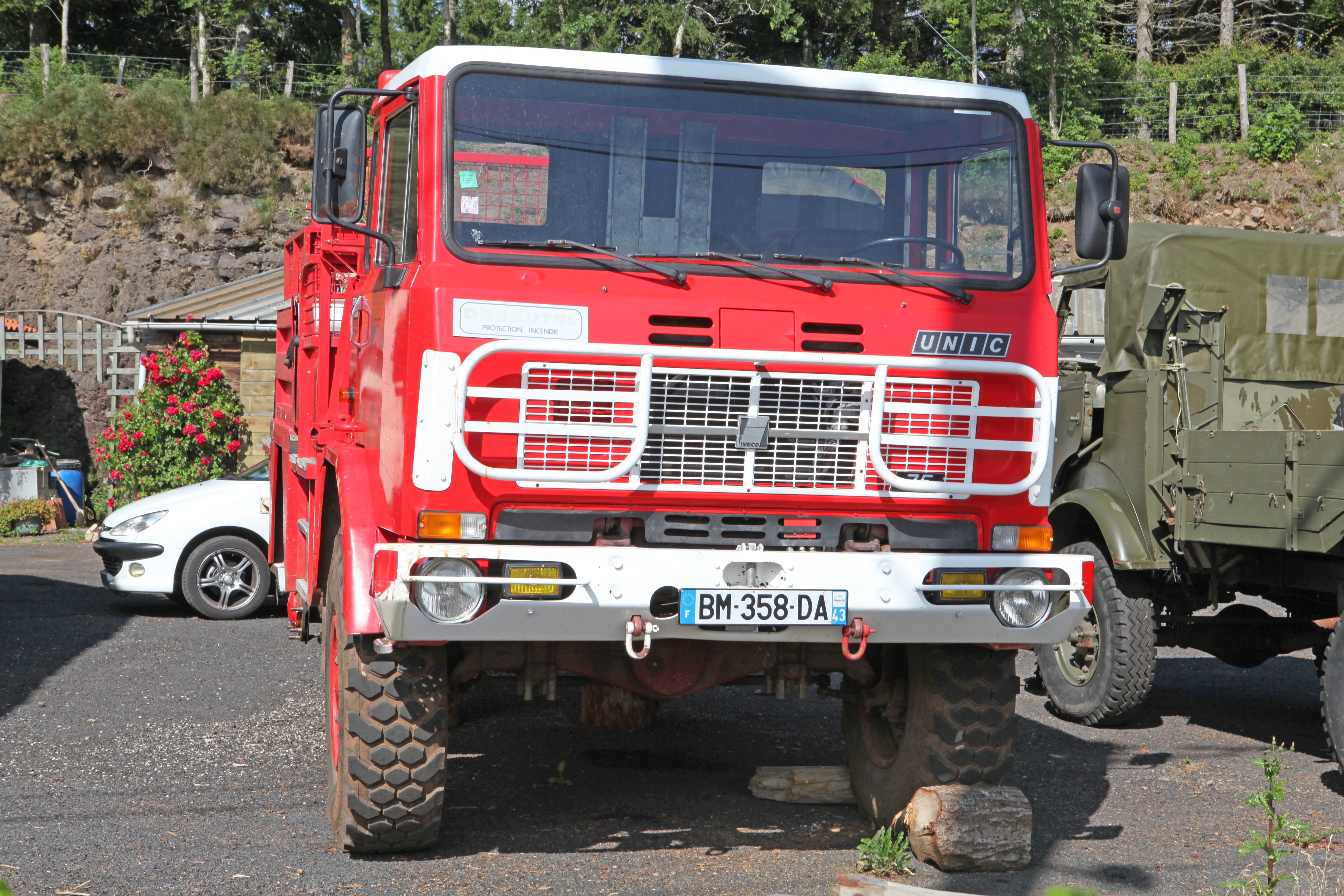 1982 Unic 75 PC